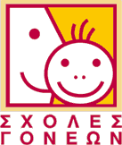 Logo INEDIVIM KDVM